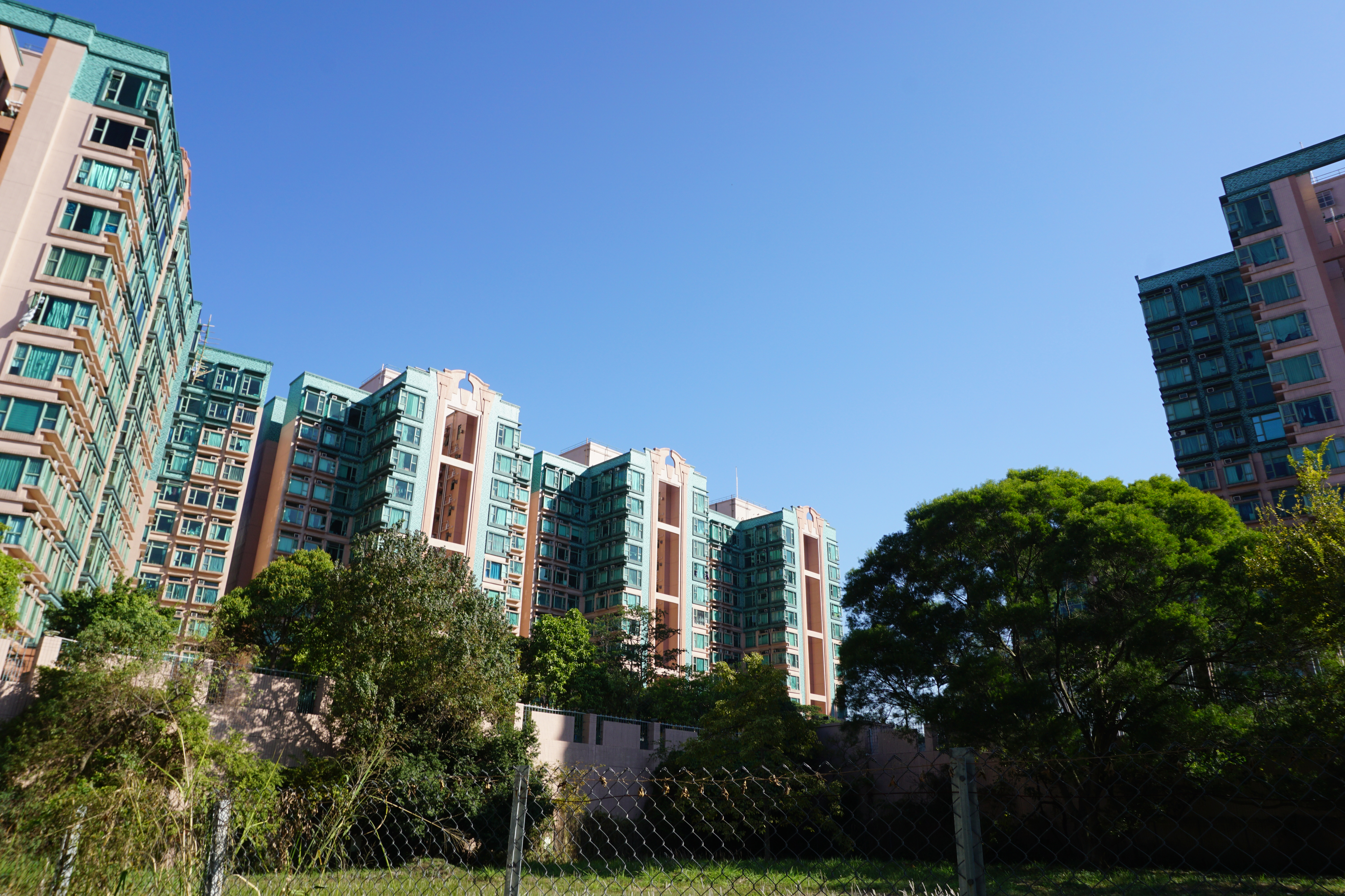 Botania Villa in Lam Tei, Hong Kong.